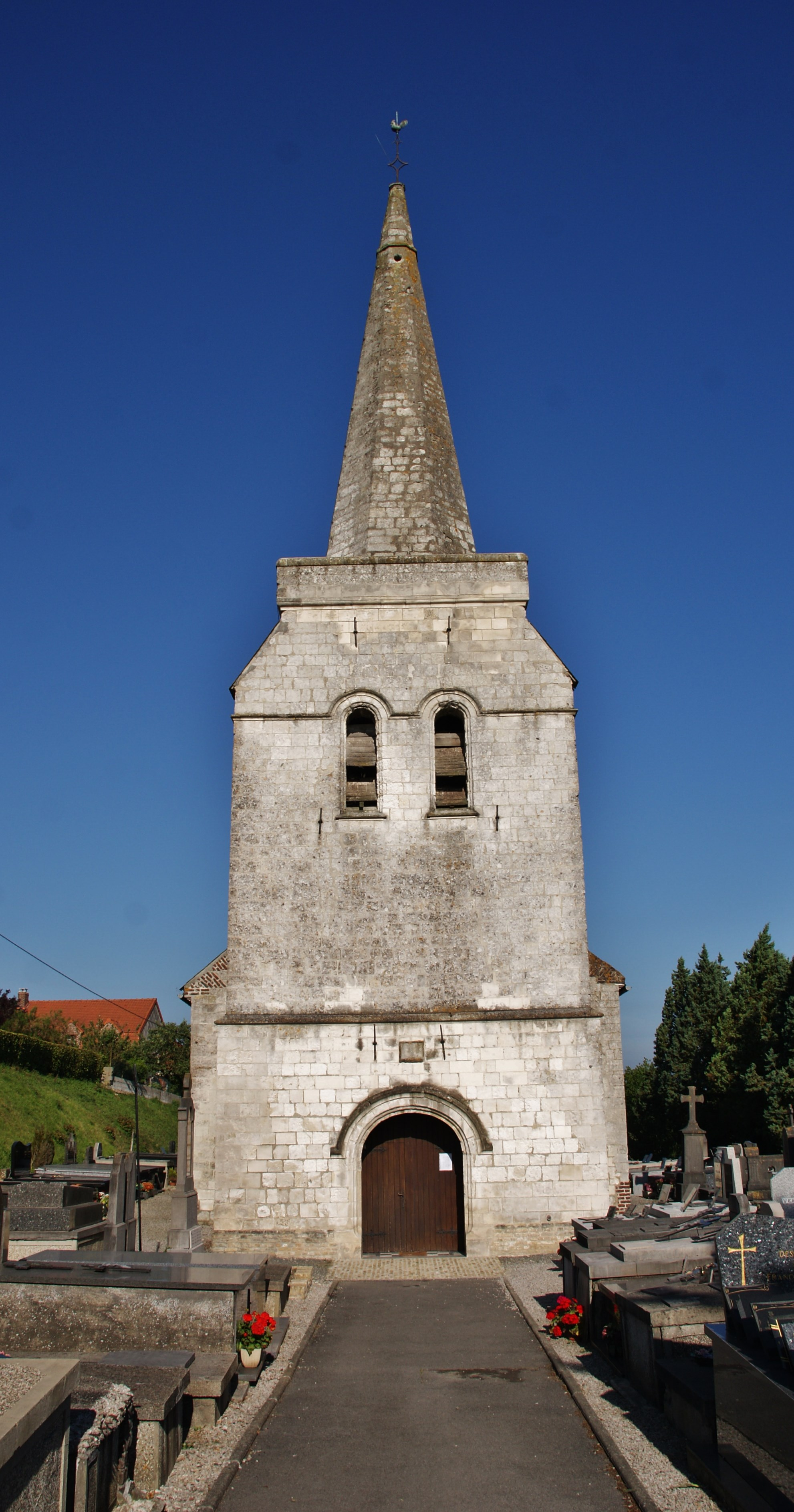 église St Omer